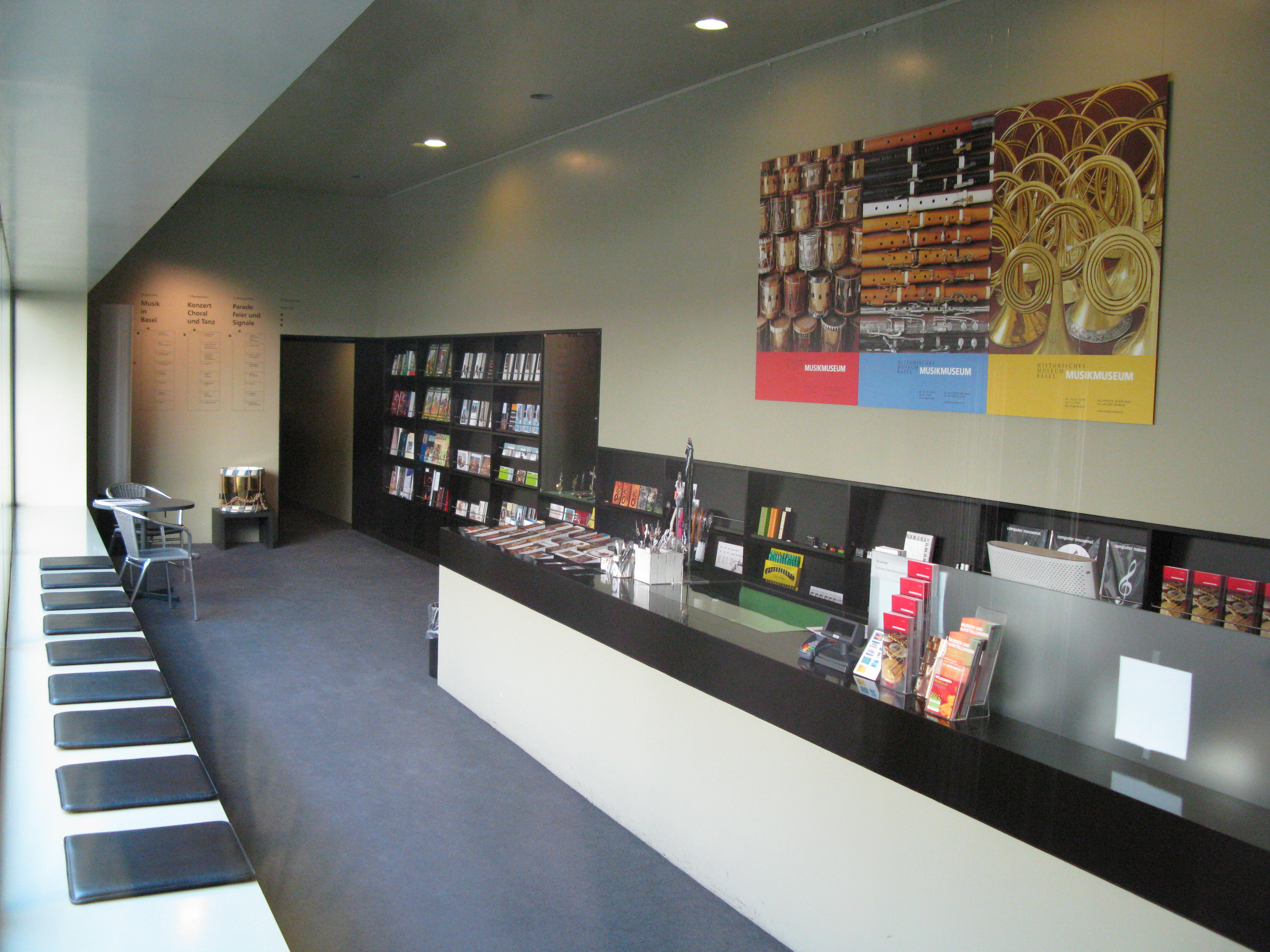 Museum of music, reception lobby